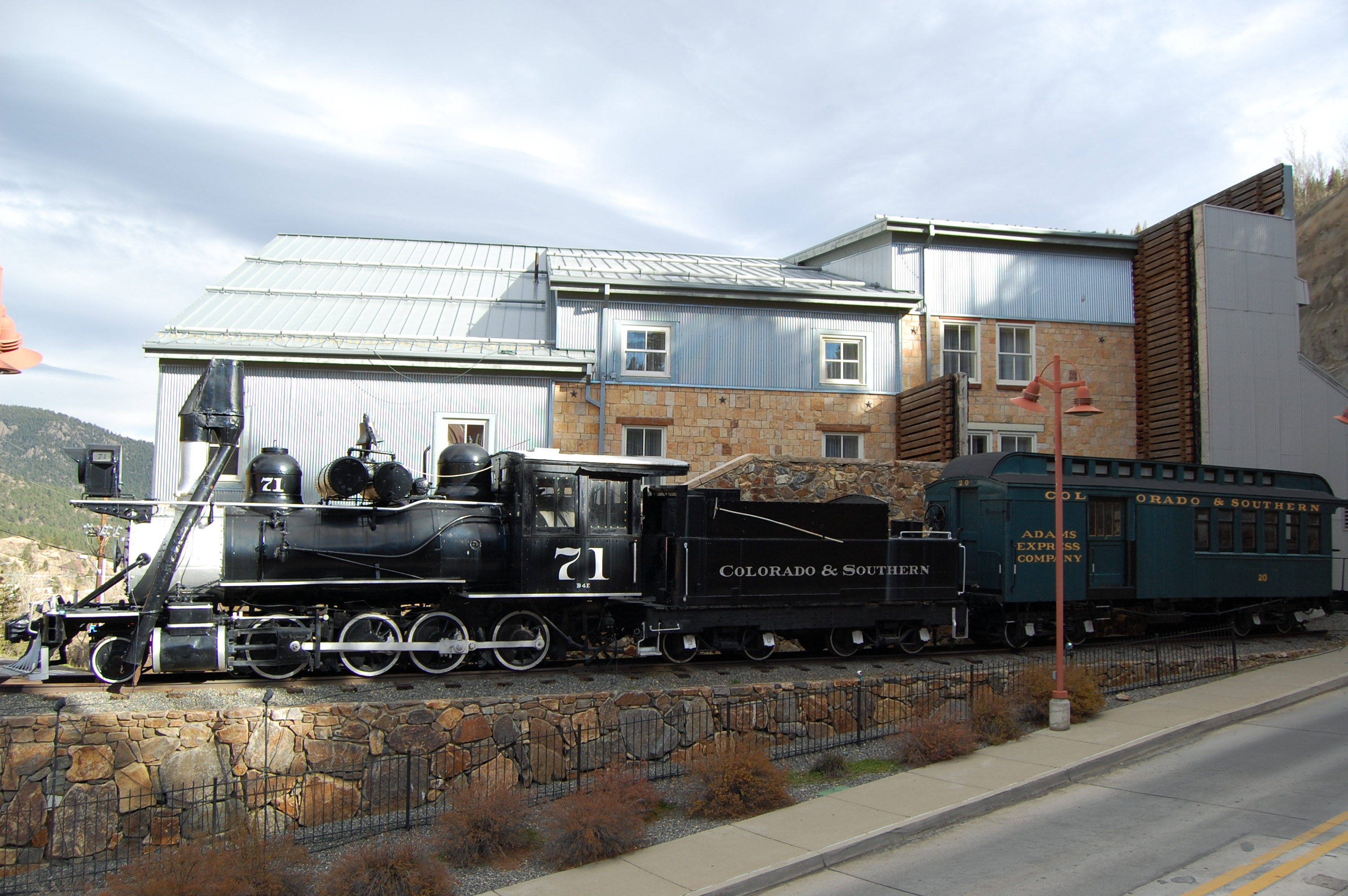 C&S #71 made its last run up the canyon to Black Hawk on April 10, 1941